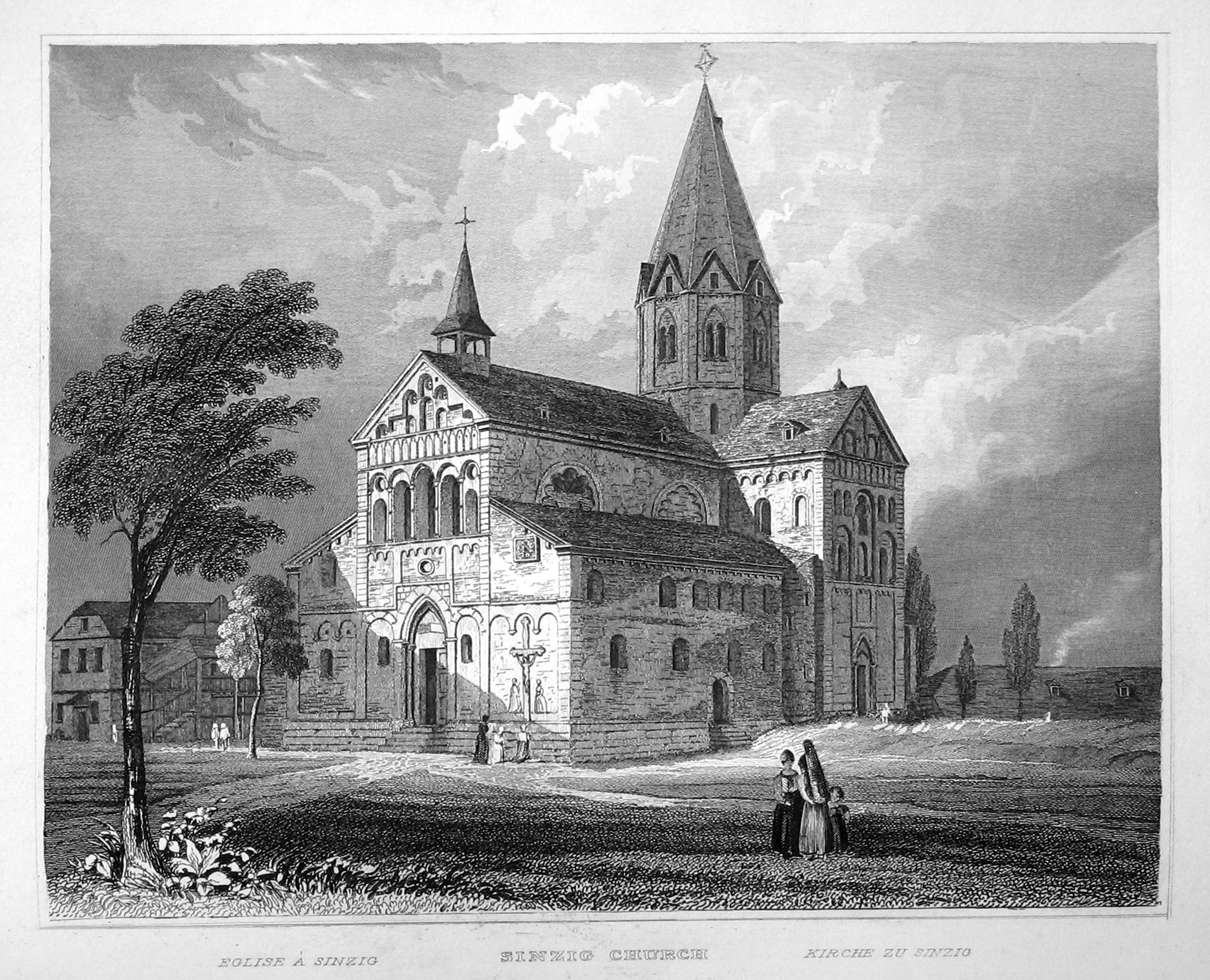 Steel engraving from "Views of the Rhine" by William Tombleson (around 1840): Sinzig Church